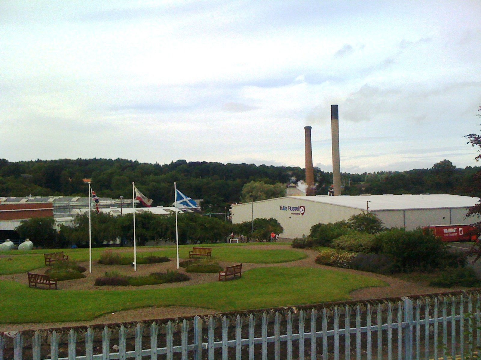 Tullis Russell Papermills, Queensway- Glenrothes/Markinch